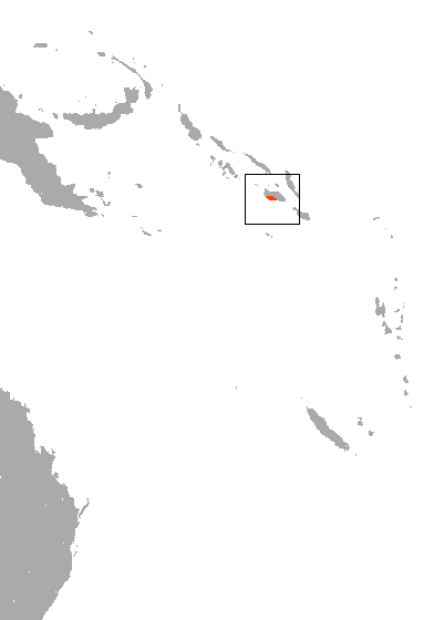 Montane Monkey-faced Bat (Pteralopex pulchra) range